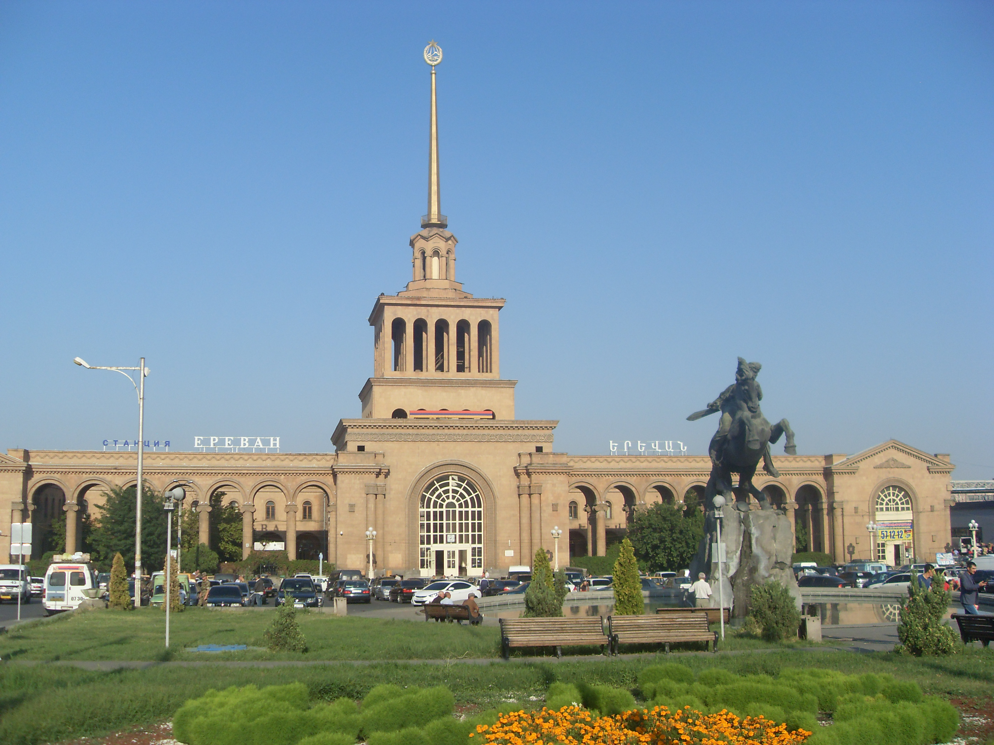 Sasuntsi Davit statue, Yerevan, 1959, Yerevan, sc. Yervand Kochar 5/16